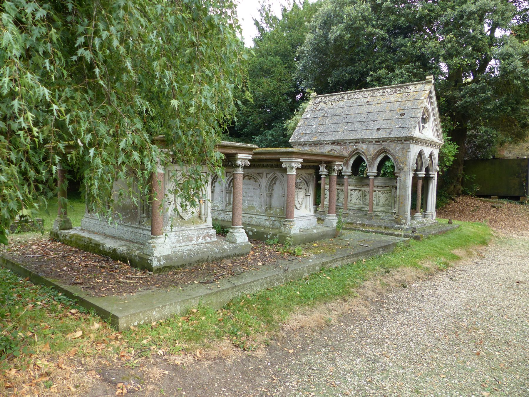 The tombs of Peter Drummond-Burrell, 22nd Baron Willoughby de Eresby (d. 1865), his wife the Hon. Sarah Clementina née Drummond (d. 1865), and his daughter Elizabeth Susan Drummond-Burrell (d. 1853). The nearer two comprise a Grade II listed building (list entry 1062830) and the tomb of the daughter is separately listed, also at Grade II (list entry 1308901).